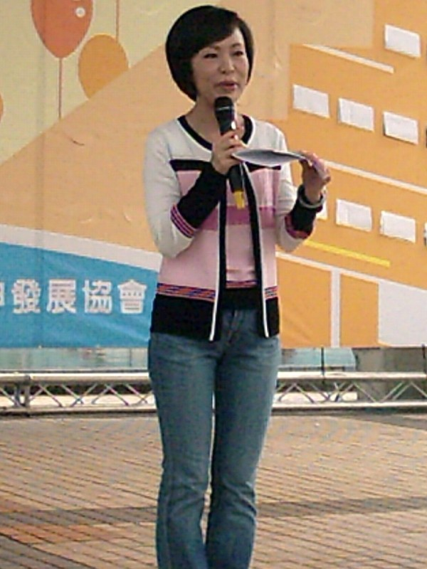 Sanlih E-Television Corporation anchor Kuo-chu Ao.